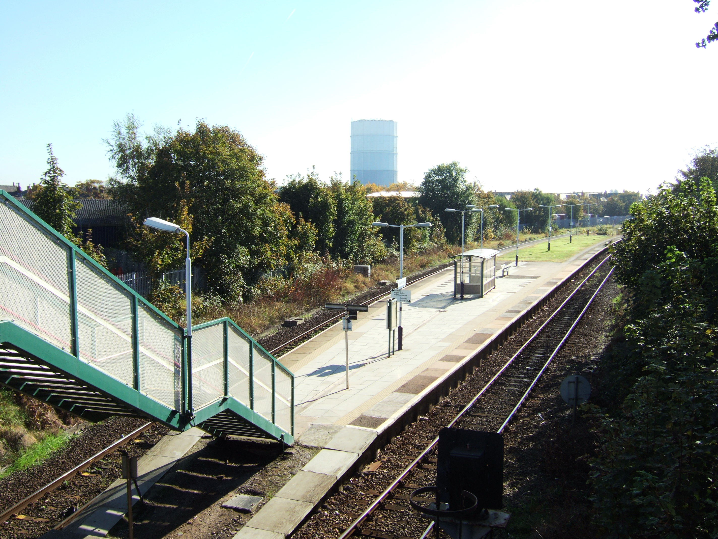 The same view on 2009 December 26 Meols Cop railway station in Blowick, Southport, Merseyside, looking southeast from grid reference SD356171 in Norwood Road. The Southport gas holder can be seen in the background.